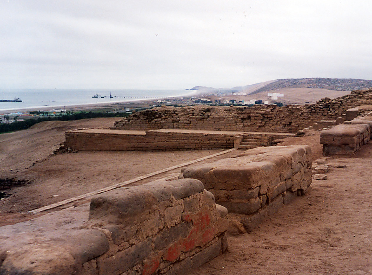 Pachacamac, view of north. The photo was taken in 2002 by Håkan Svensson (Xauxa).